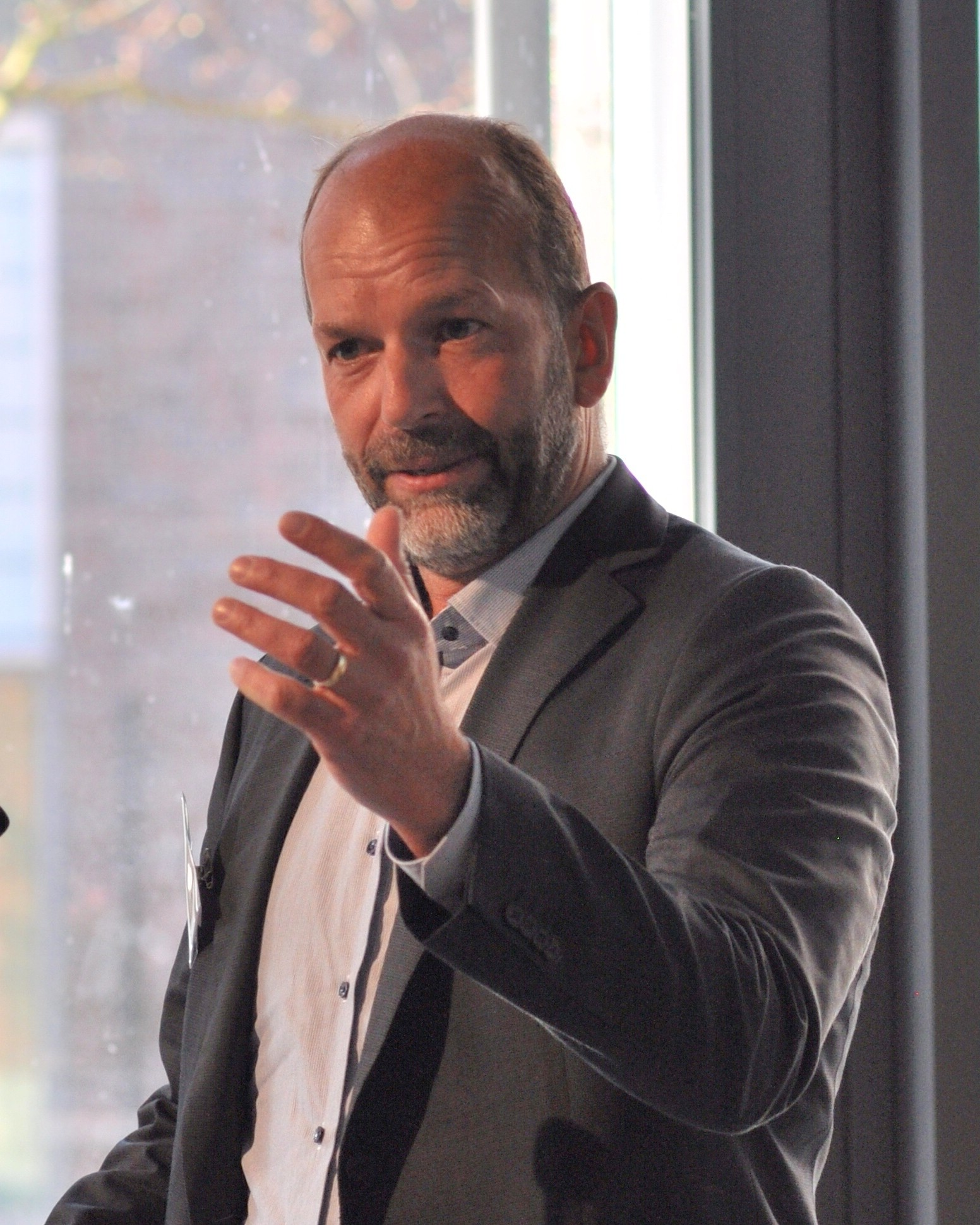 Sönke Knutzen at the opening ceremony of the Hamburg Open Online University on April 22nd 2015